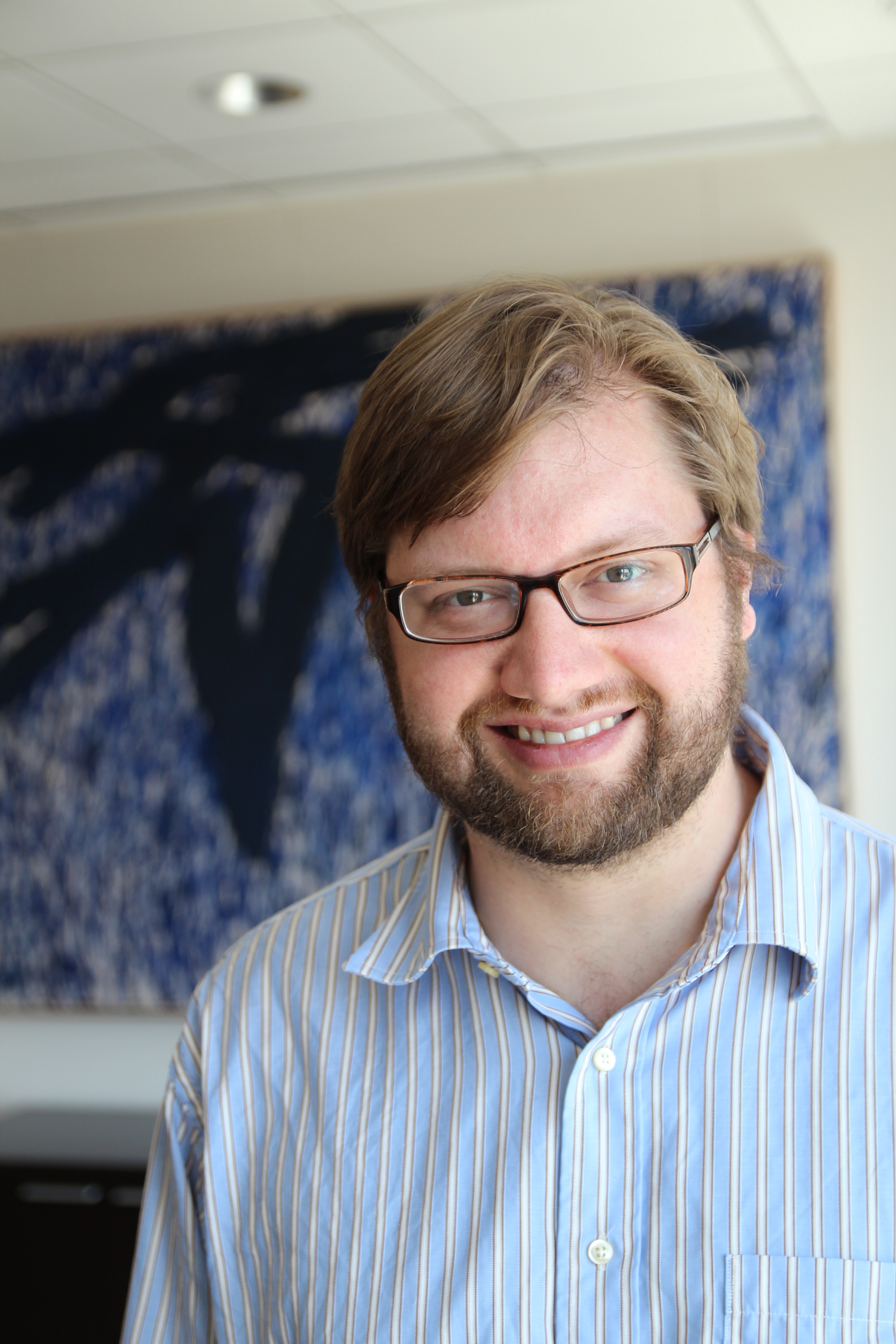 Nathan Oostendorp May 2012. Photo credit: Kyle Lawson